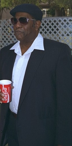 Johnnie Johnson at the 1996 Riverwalk Blues Festival in Fort Lauderdale, FL.